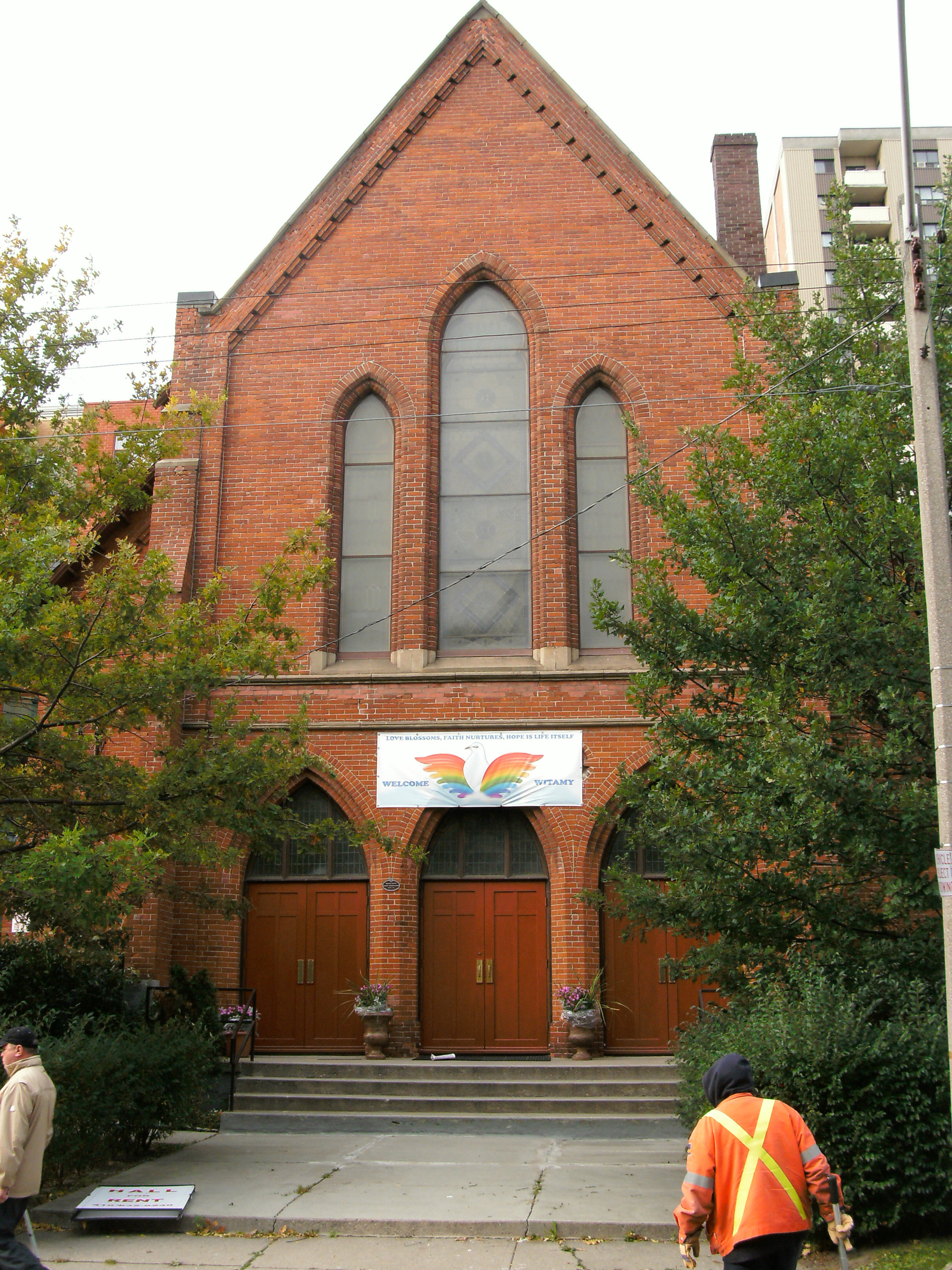 St. John's Cathedral, 186 Cowan Avenue, Toronto, Ontario, Canada, also known as St. John's Polish National Catholic Cathedral